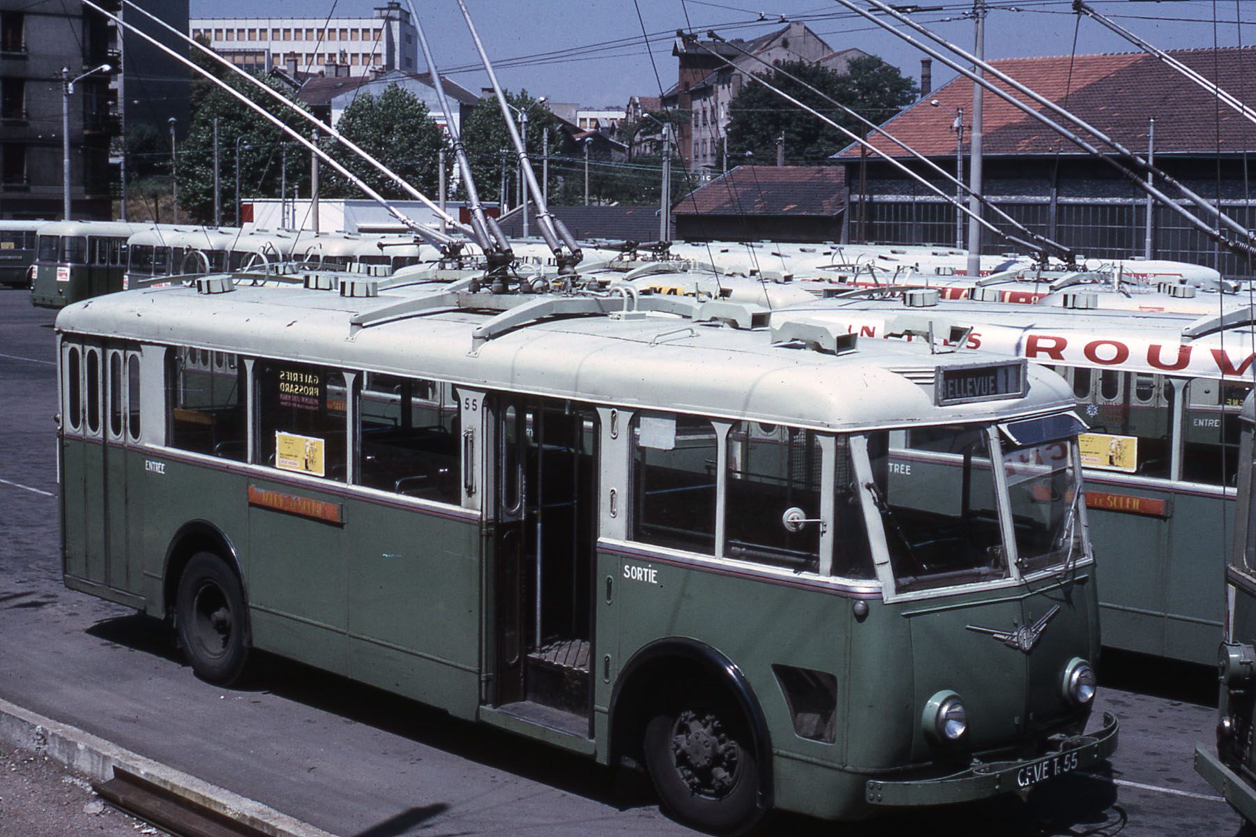 St. Etienne trolleybus 55, a circa 1951 Vetra VCR model, at the depot in 1967.